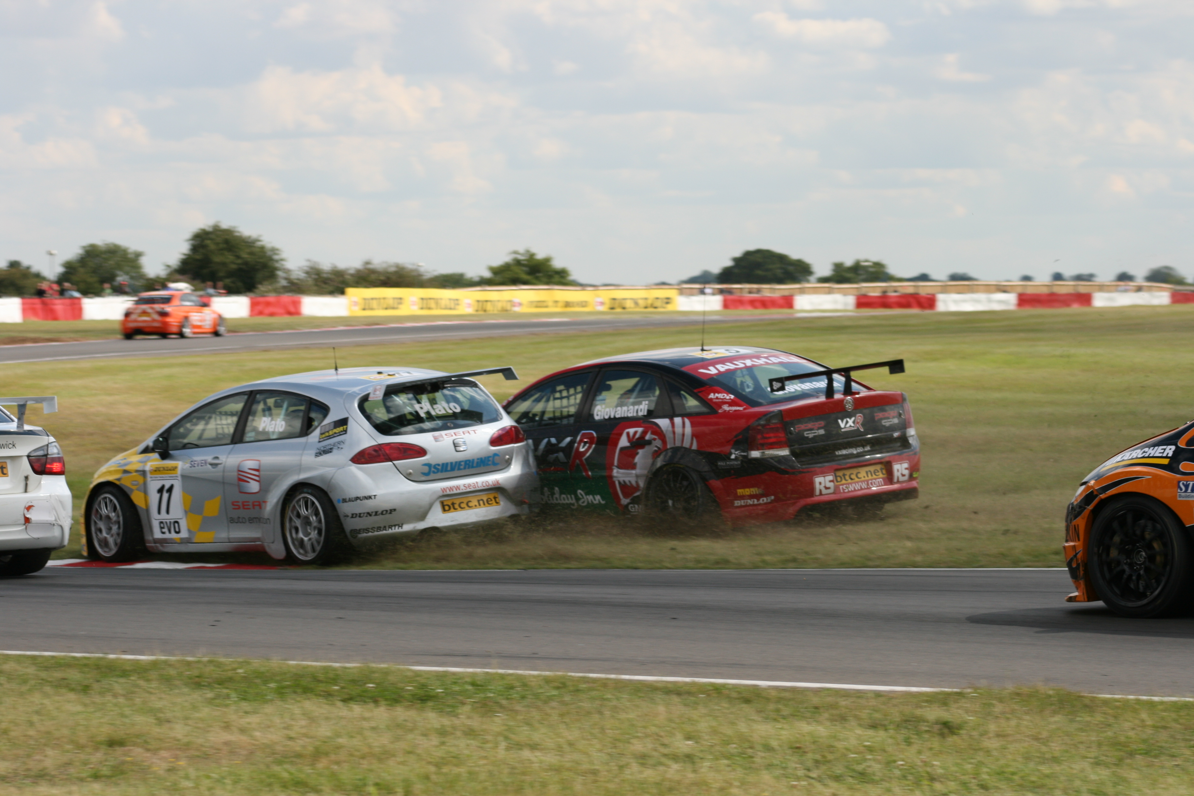 A BTCC race at Snetterton in 2007, and championship contenders Jason Plato (SEAT) and Fabrizio Giovanardi (Vauxhall) collide at turn 1.